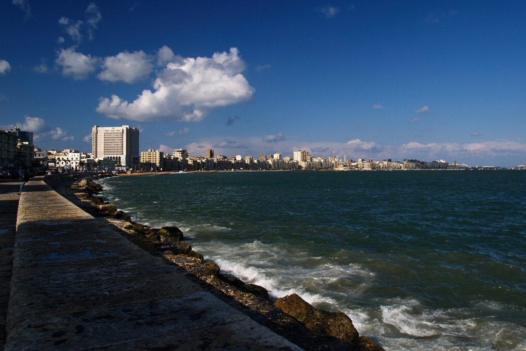 Alexandria/Egypt, at the corniche own photo, feb 12, 2005 photo: nomo/michael hoefner